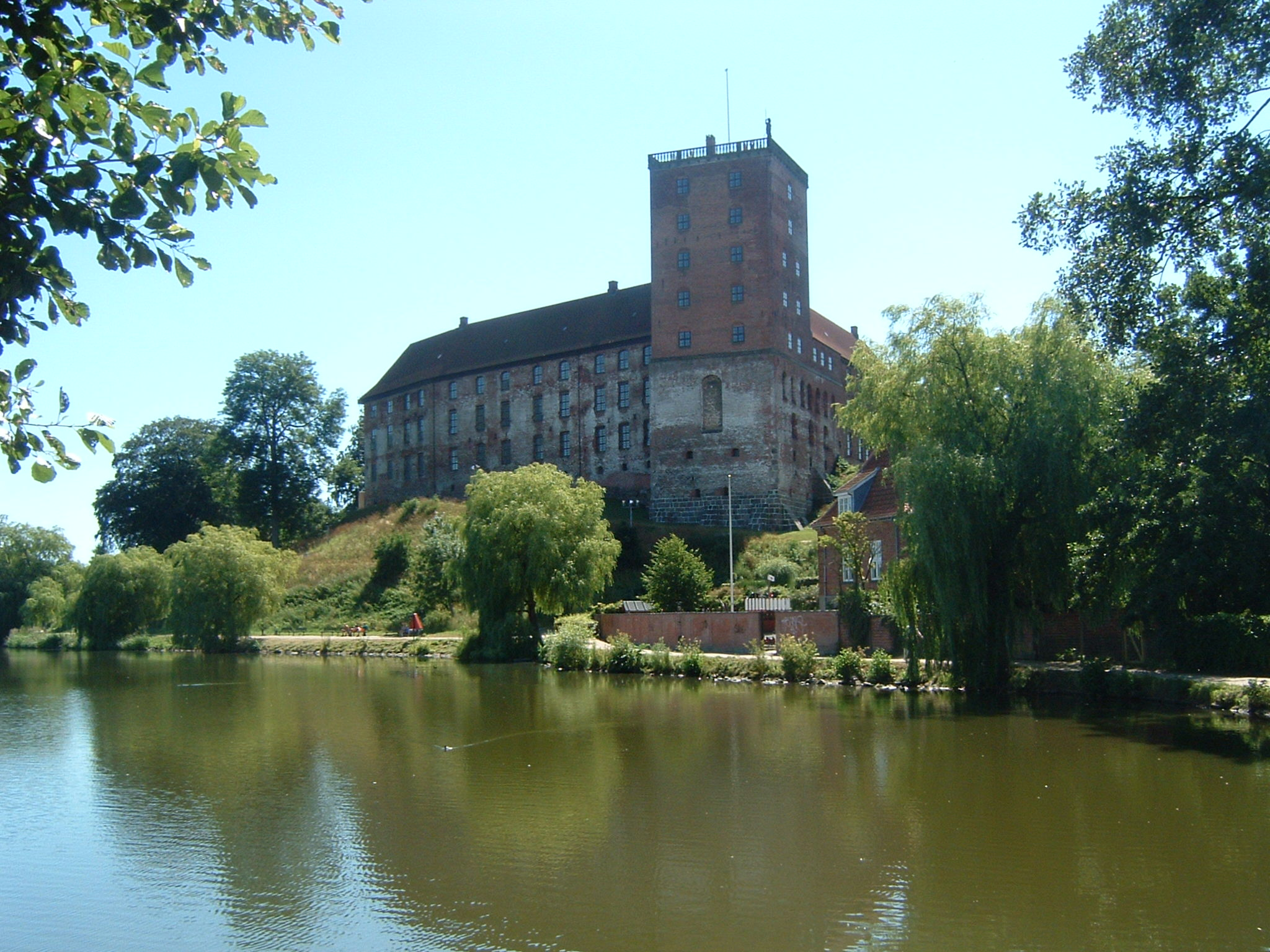 Own photograph of Koldinghus seen from over the Slotssø lake.